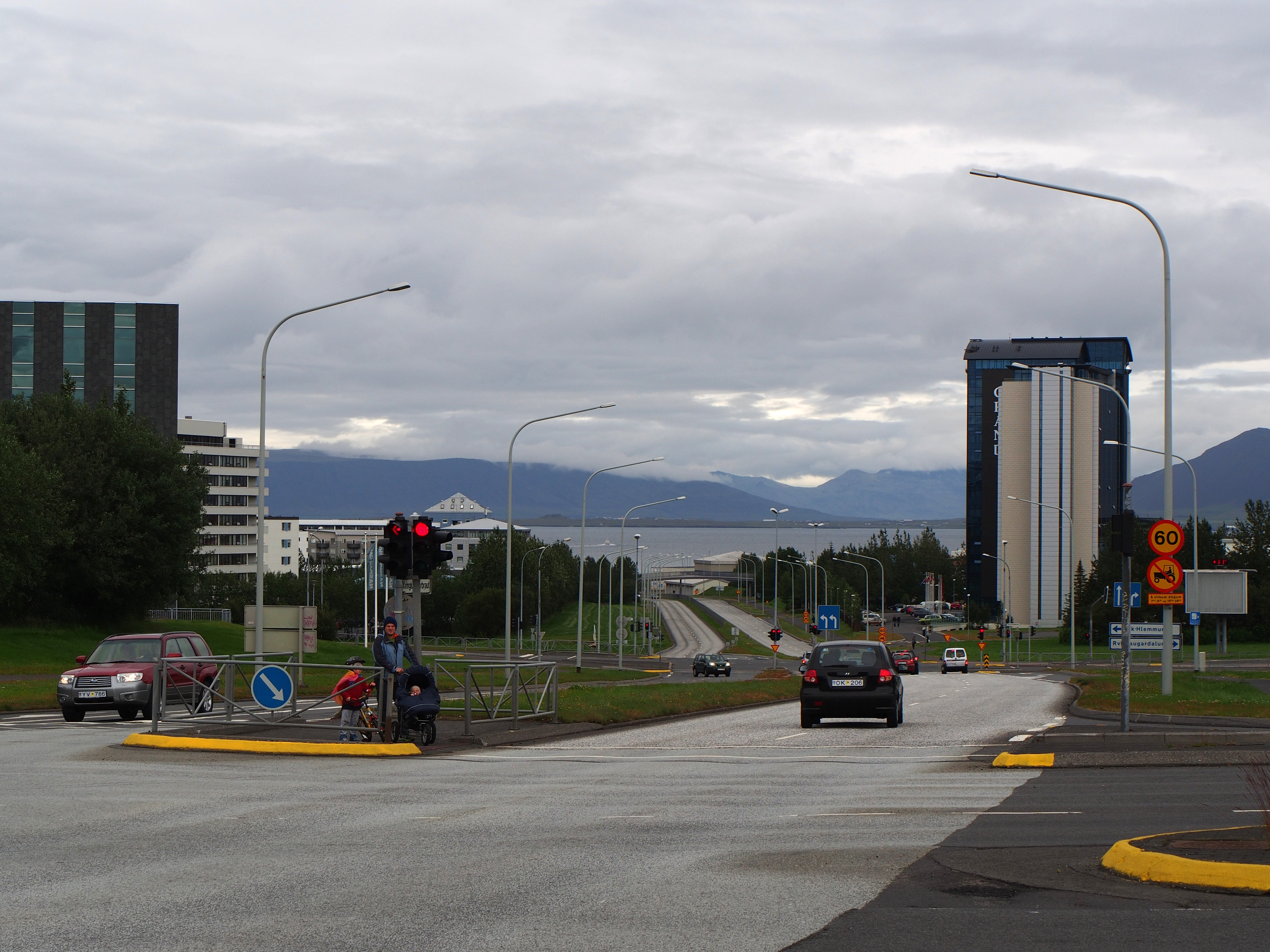 City of Reykjavik - 2013.08